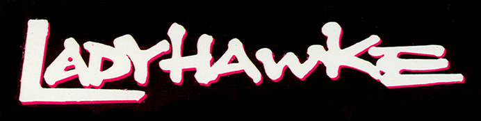 Title of movie Ladyhawke